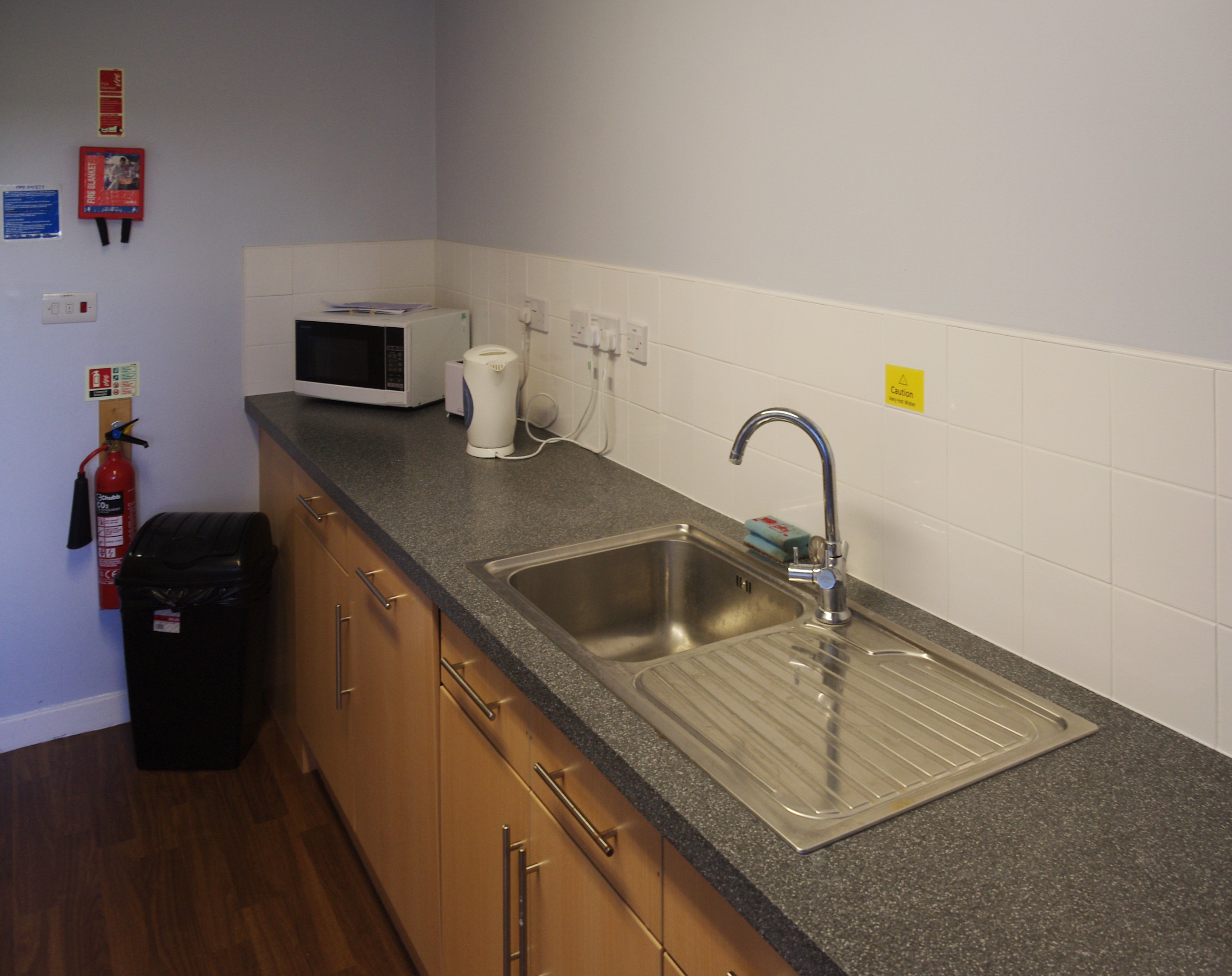 Interior of a pantry at Southwell Hall on Jubilee Campus, University of Nottingham.